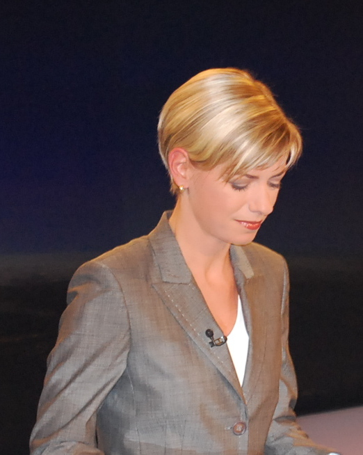 Marie-Claire Zimmerman in the ZIB 2 studio